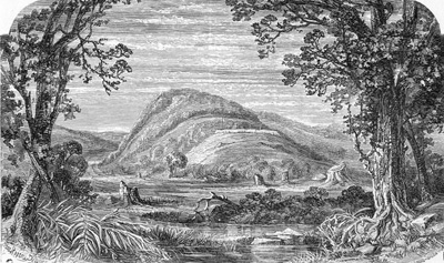 Battle Pass, Brooklyn circa 1792 etching, public domain. Original photograph courtesy of The Brooklyn Historical Society. Digital copy available at the Prospect Park Archive.